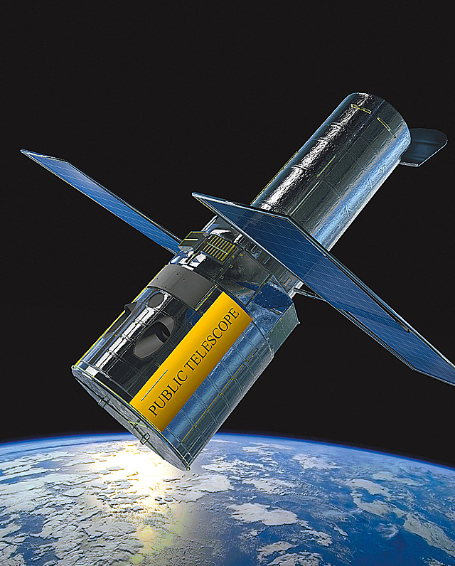 Public Space Telescope